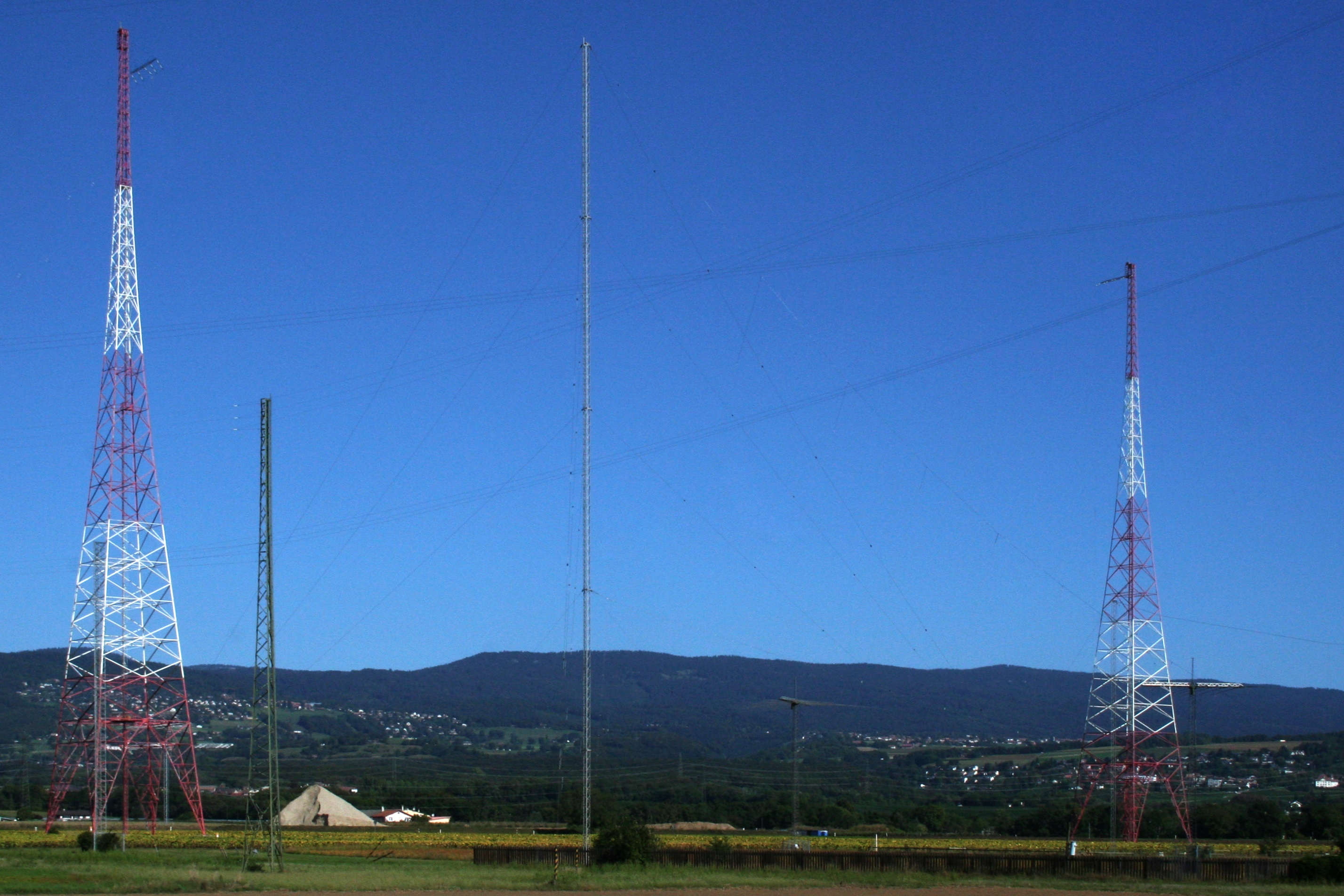 HBG was a low frequency time signal transmitter for the Swiss time reference system. Due to aging infrastructure, the Swiss Federal Government decided to shut down HBG on 31 December 2011.